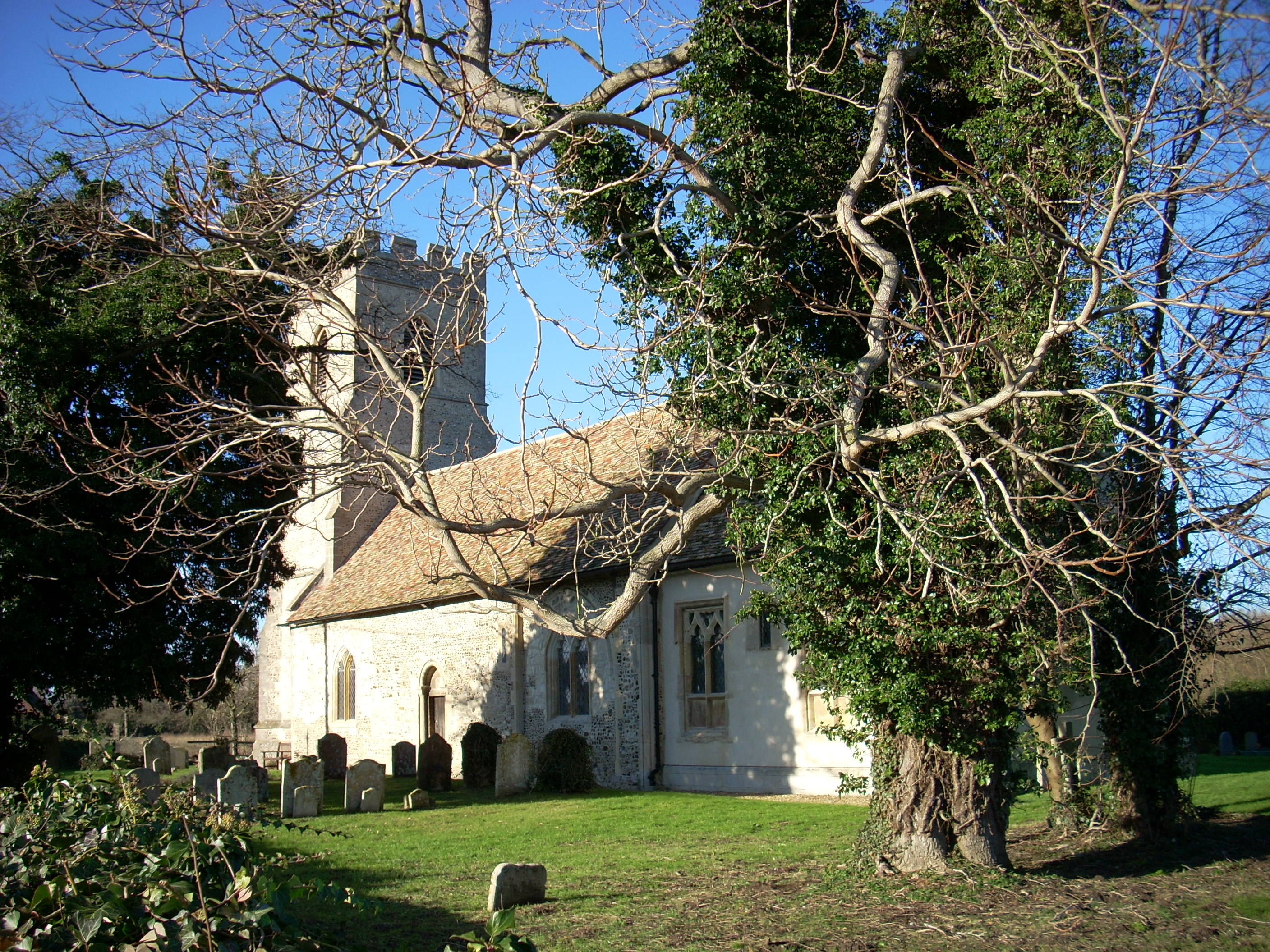 Church of St. Edmund in Hauxton, Cambridgeshire, England